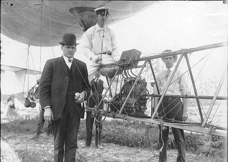 PH Coll 779.24 Subjects (LCSH): Mars, J.C.; Air pilots--Washington (State)--Seattle; Alaska-Yukon-Pacific Exposition (1909 : Seattle, Wash.); Exhibitions--Washington (State)--Seattle